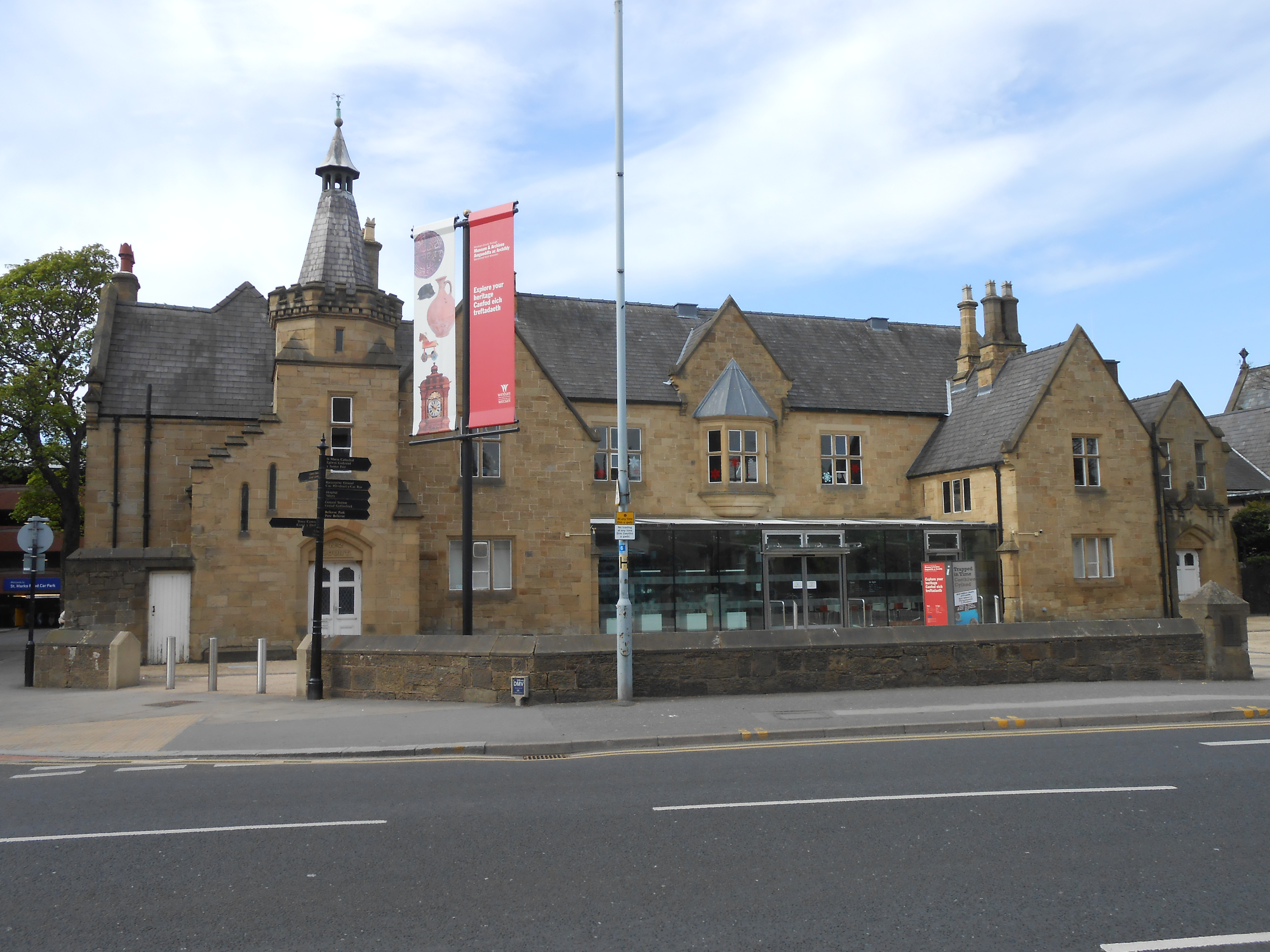 Wrexham Museum and Archives, Wales. Originally built in 1857 as a barracks for the Denbighshire Militia.